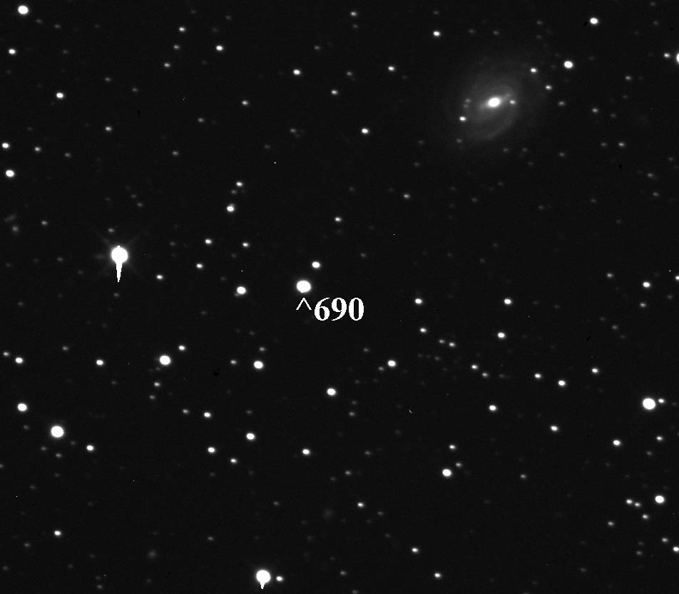 6 minute exposure of asteroid 690 Wratislavia with a 24" telescope. 690 Wratislavia is apparent magnitude 12.9 in this image taken at 2009-10-16 03:30 UT. The star just to the left of 690 Wratislavia is magnitude 14.7. The star blooming to the far left is magnitude 11.4. To the upper right you can see the galaxy NGC 6941. The galaxy is roughly magnitude 13. Some of the stars below NGC 6941 are magnitude 19. (This "anniversary" photo was taken 100 years after the discovery of the asteroid.)